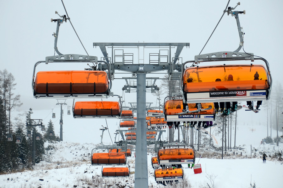 6-chair lift in Tatranska Lomnica, Slovakia